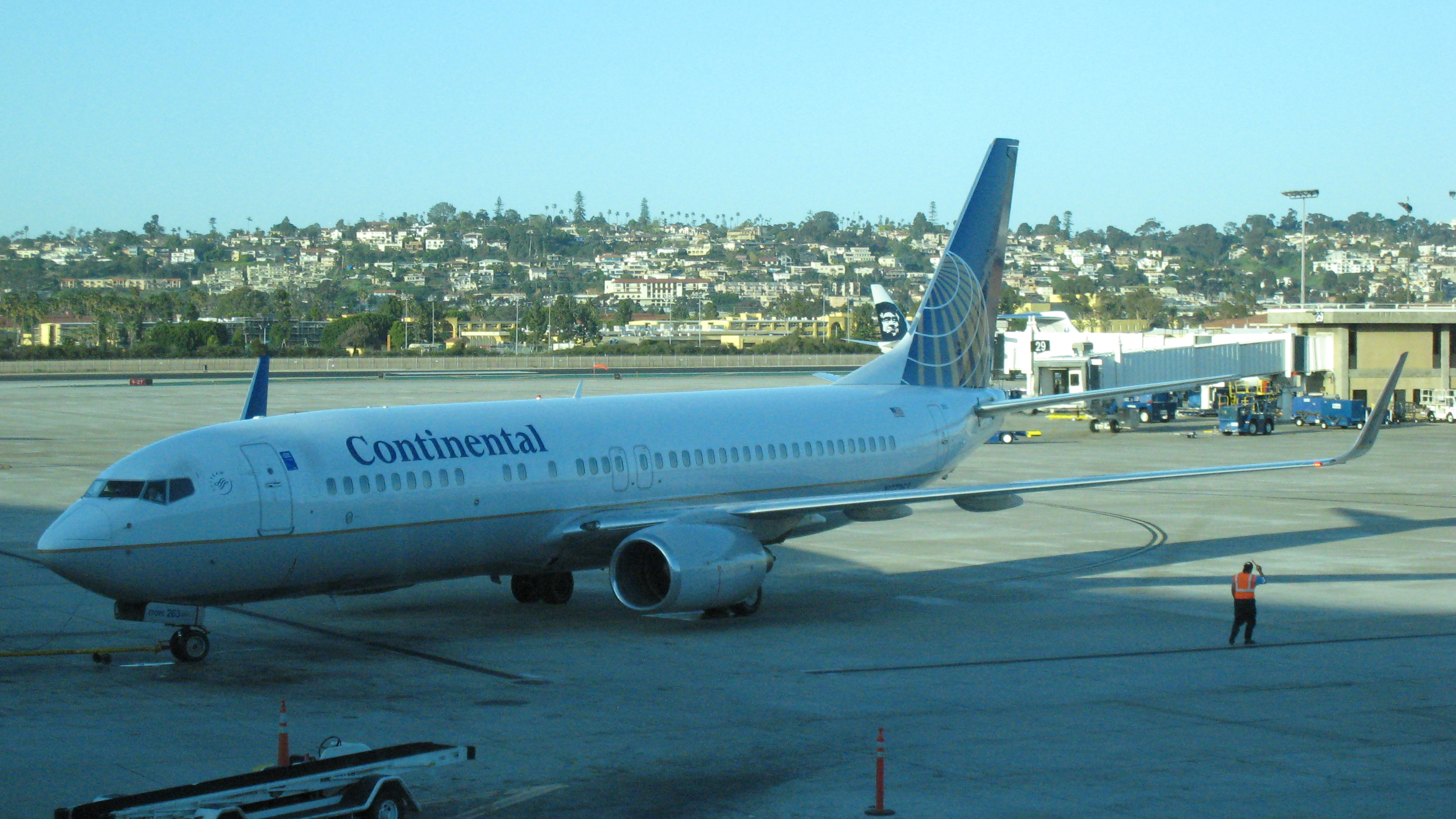 Boeing 737-900 on ramp at SAN, with closeness of MCRD San Diego and Mission Hills in background.